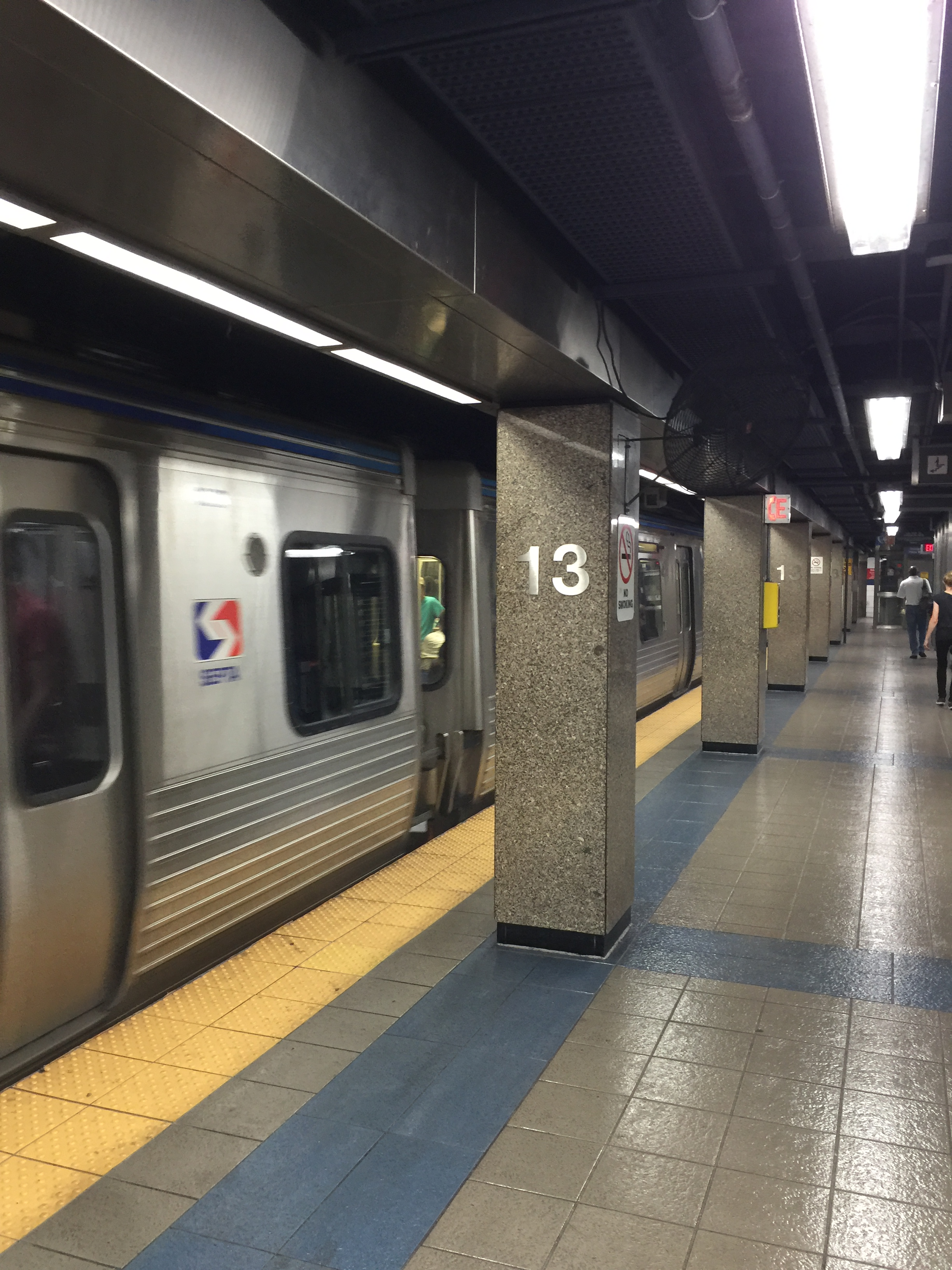 13th Street MFL 1